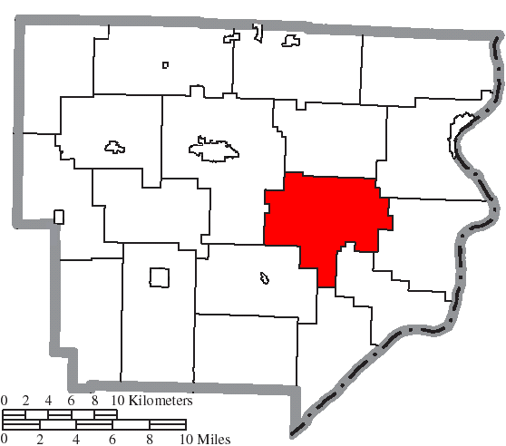 Map of the municipal and township boundaries of Monroe County, Ohio, United States, as of the 2000 census, with the location of Green Township highlighted. Township borders are shown only in unincorporated areas in order to differentiate incorporated and unincorporated areas more clearly.